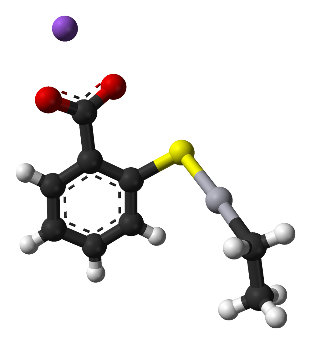 Ball-and-stick model of the thiomersal molecule. Single crystal X-ray diffraction data from Molecular Structures of Thimerosal (Merthiolate) and Other Arylthiolate Mercury Alkyl Compounds J. G. Melnick, K. Yurkerwich, D. Buccella, W. Sattler, G. Parkin Inorg. Chem. (2008) 47, 6421–6426 Image generated in Accelrys DS Visualizer.